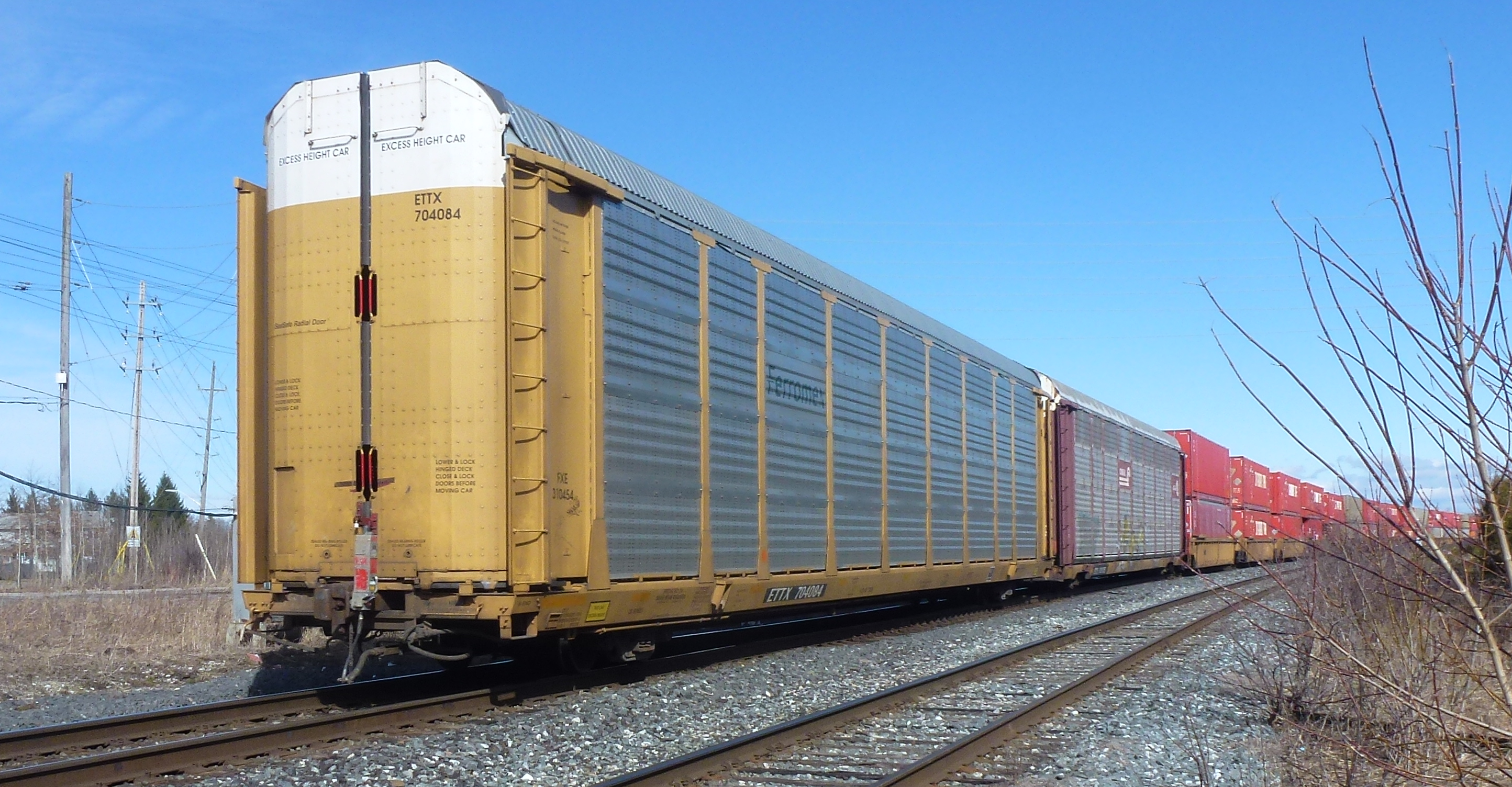 A Ferromex autorack, far from its home line, in Bolton, Ontario, Canada on 1 April 2017.